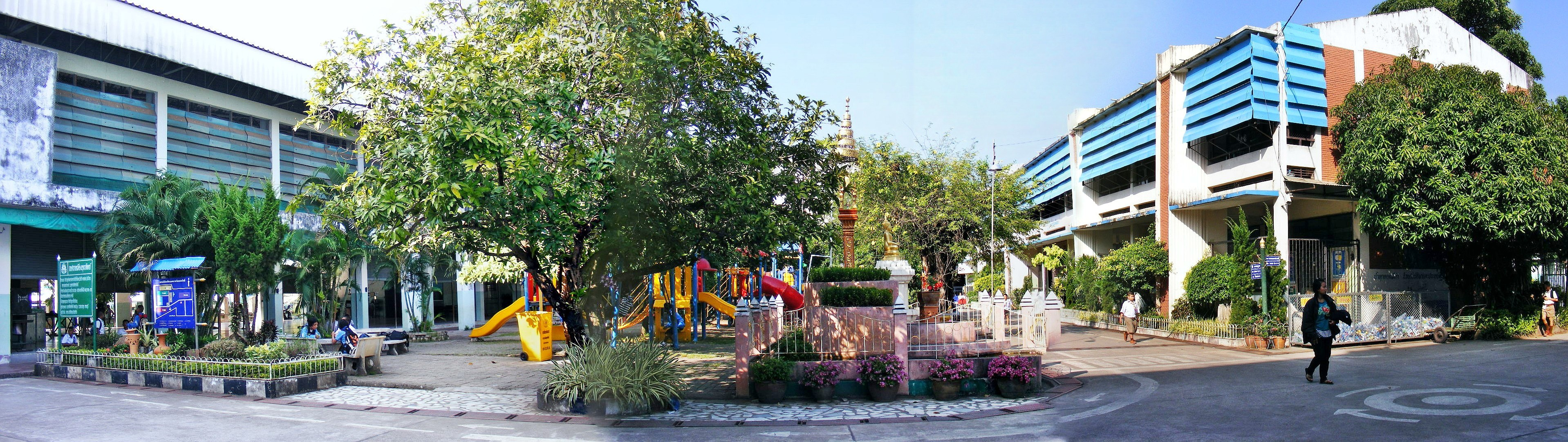 Watklongpho Municipal School Location: Watklongpho Municipal School Mueang Uttaradit, Uttaradit Province, Thailand.